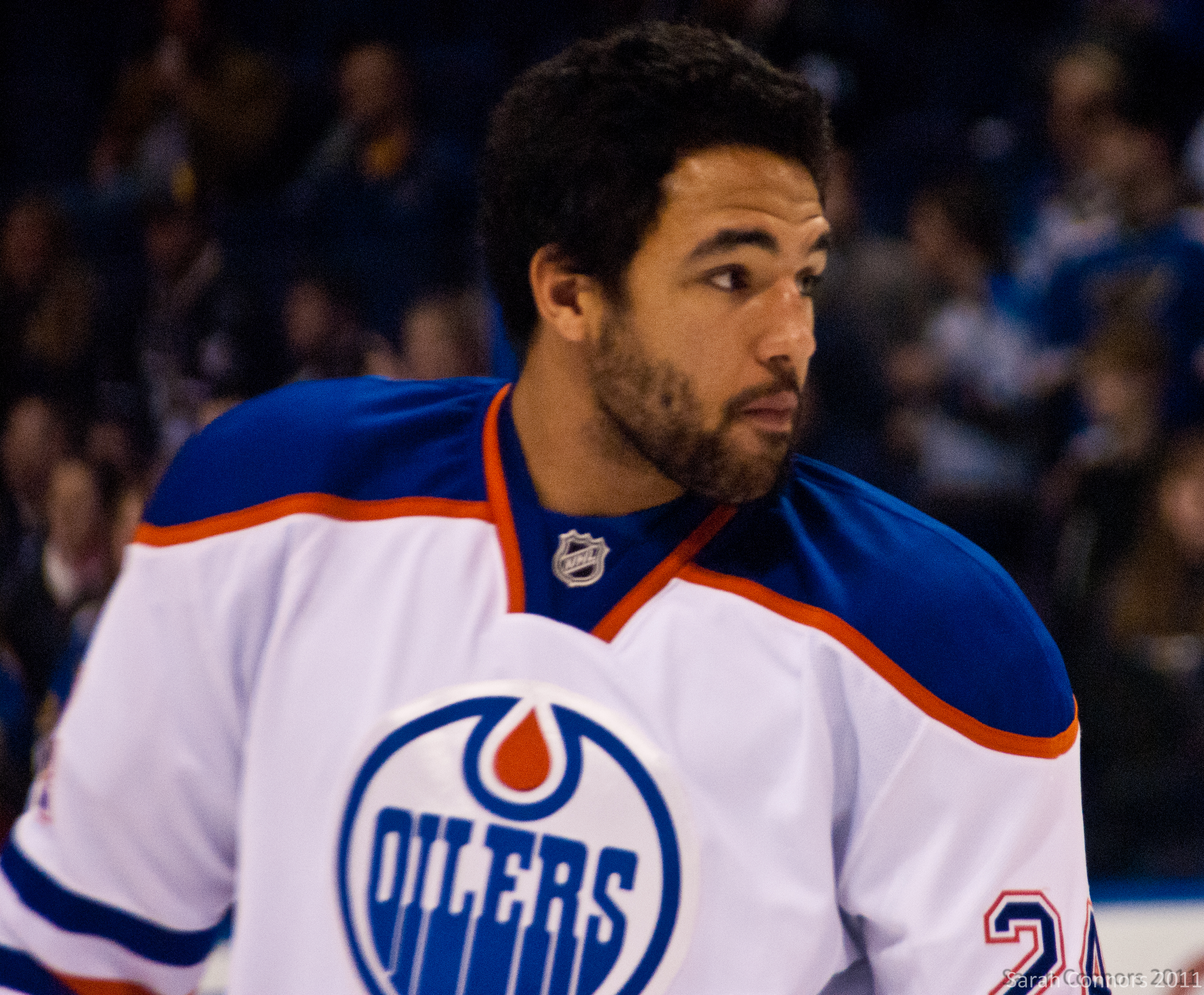 Theo Peckhamin 2012